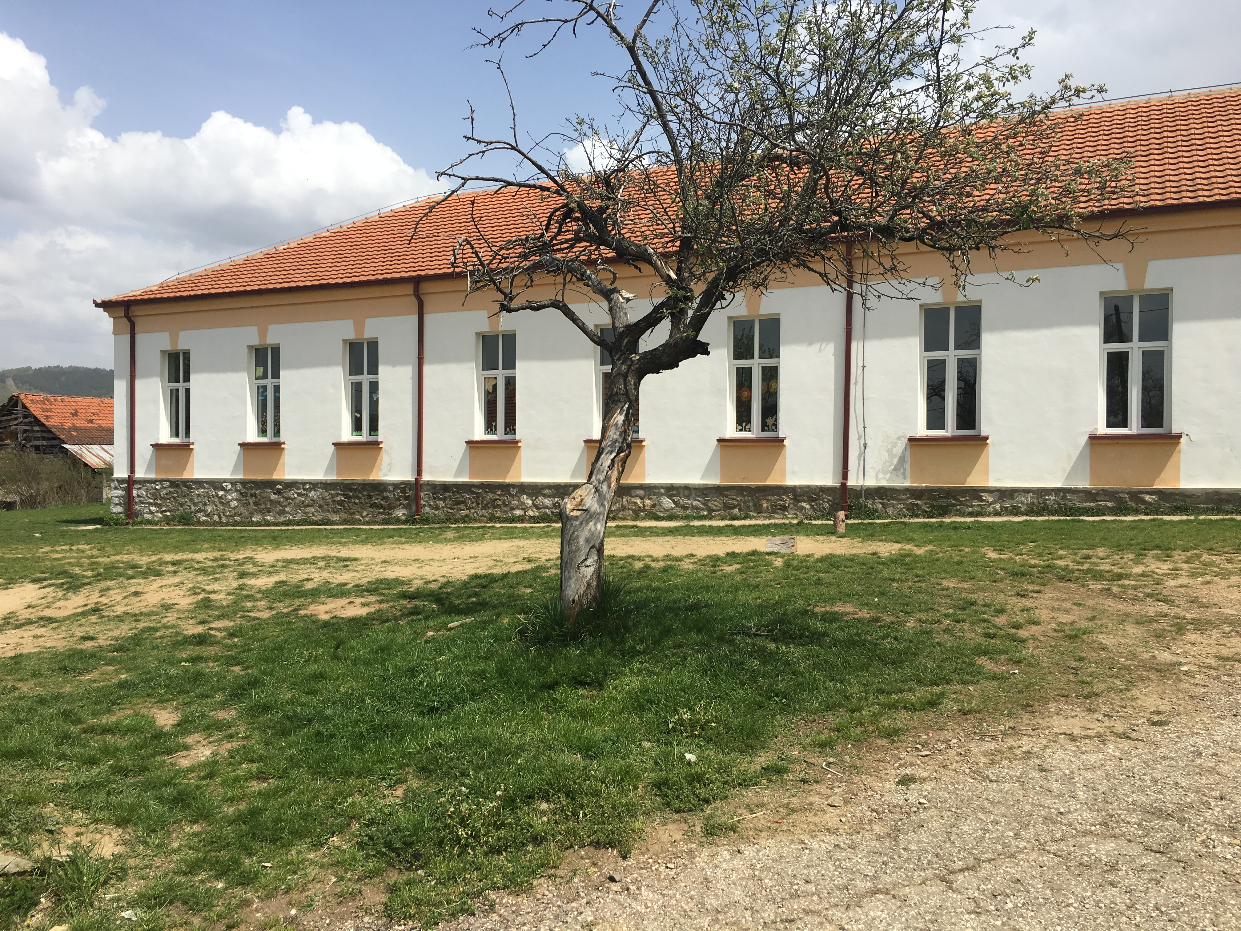 The primary school in the village of Konopnica